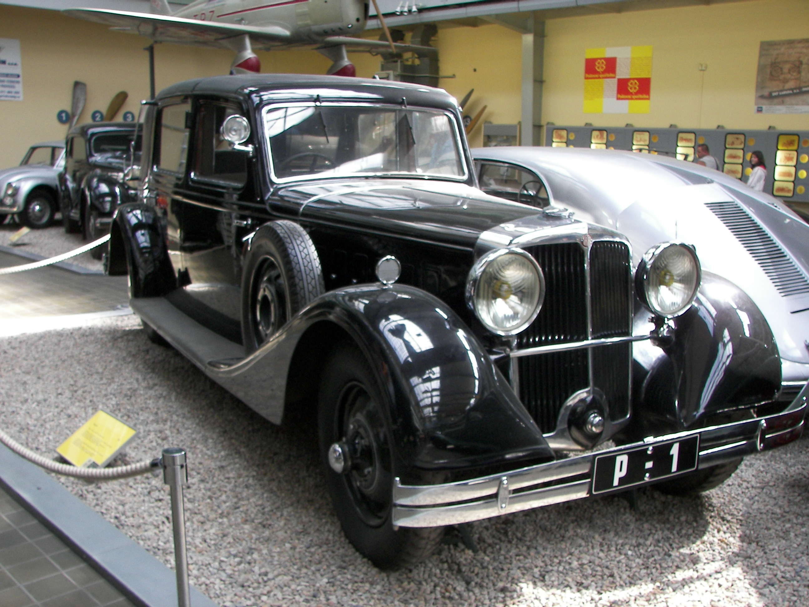 Tatra 80 - Luxury car. This one was build 1935 for czechoslovak president T. G. Masaryk. Currently in Národní technické muzeum Praha